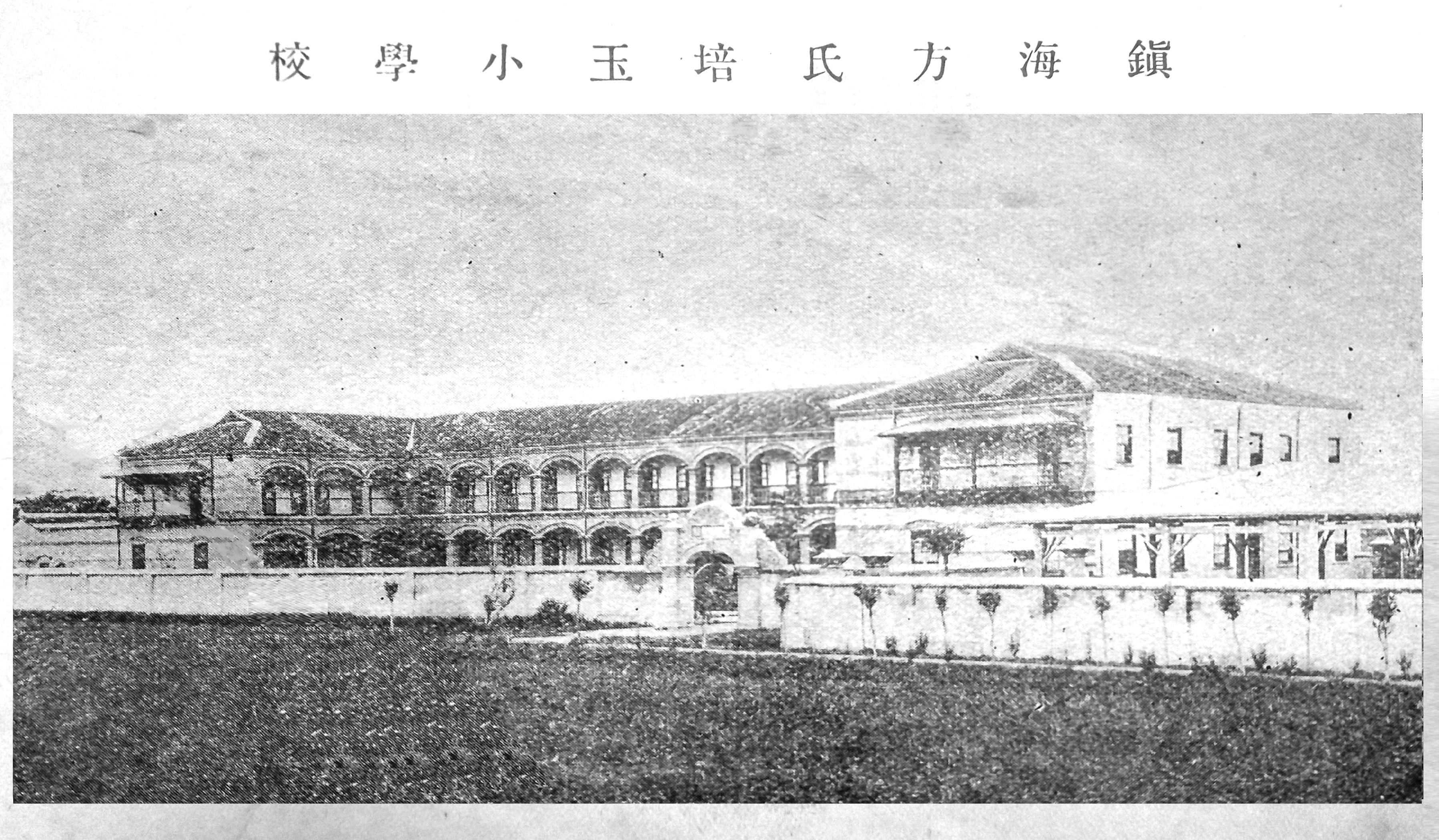 1906 Fang's Private School in Ning Bo China Аҧсшәа: 1906年镇海方氏培玉小学外景